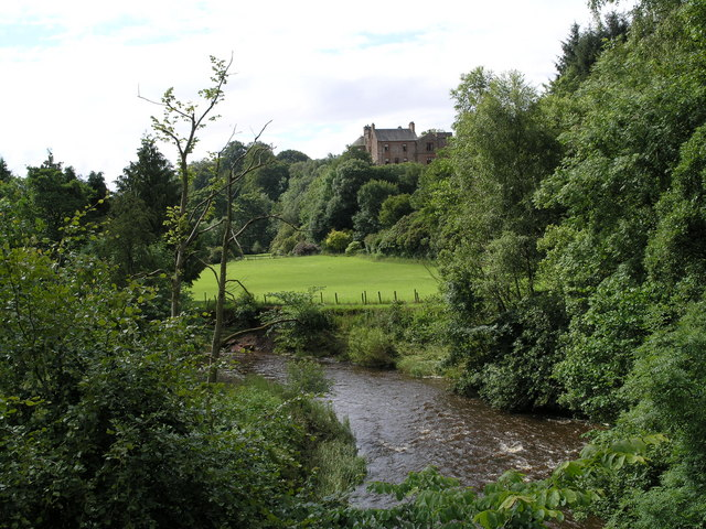 The 16th century Robgill Tower in Dumfries and Galloway